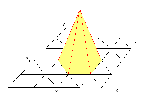 Courant's base function